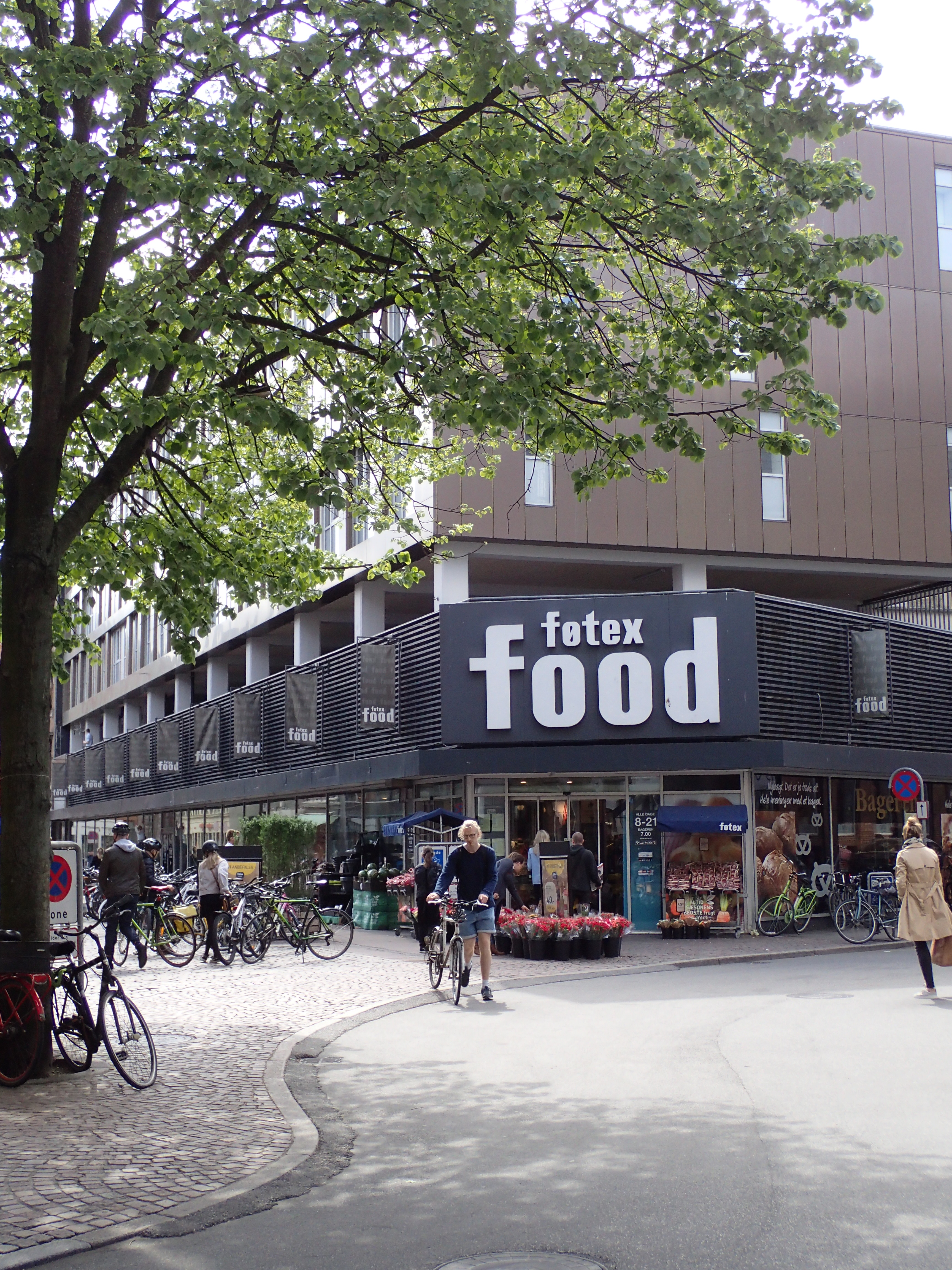 The first supermarket in Denmark. The first Føtex store opened in Guldsmedgade, Aarhus in 1960. The building was renovated in 2010 at the 50-year anniversary. At the same time the føtex food concept was introduced.